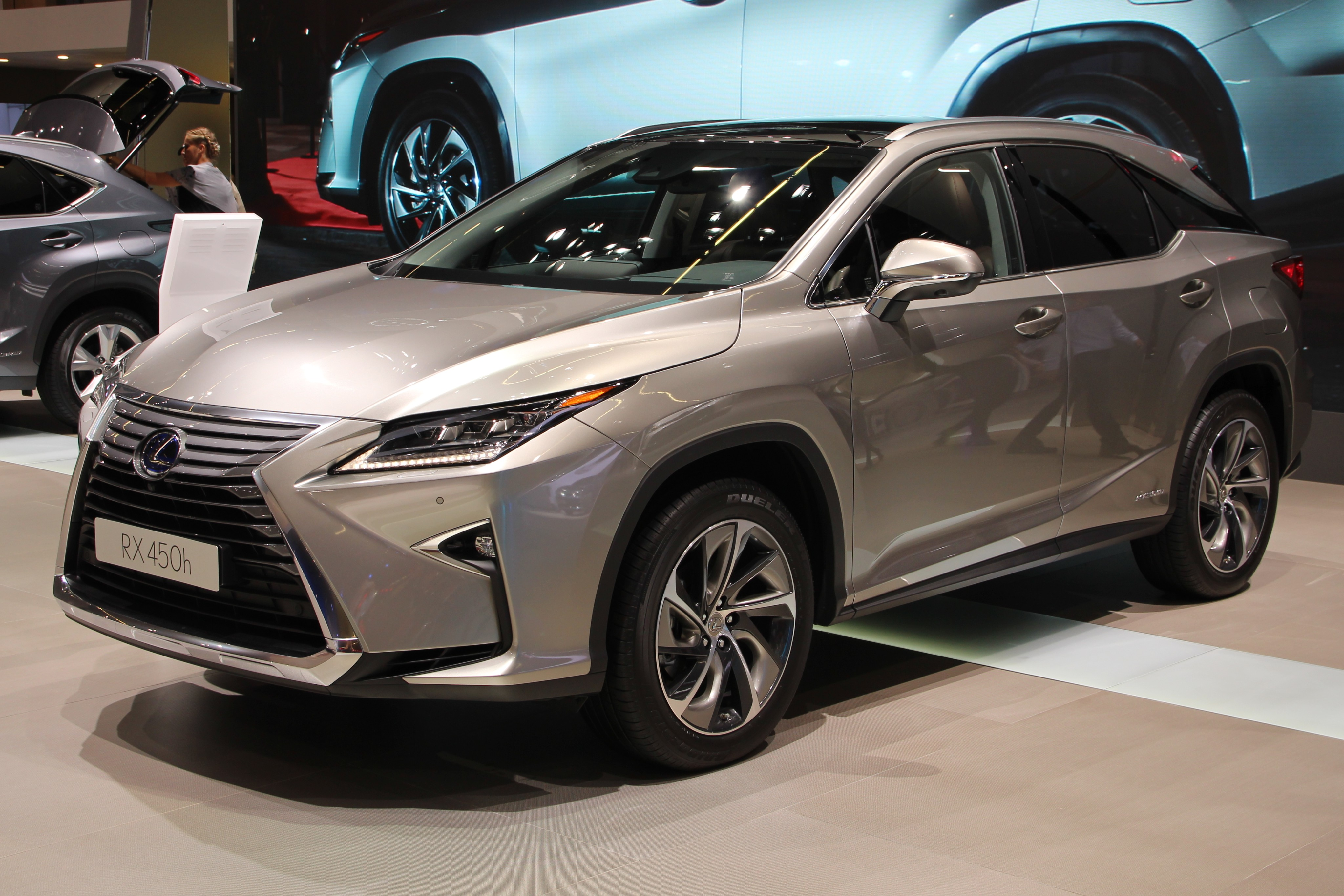 Lexus RX 450h at the IAA 2015 Frankfurt International Motor Show